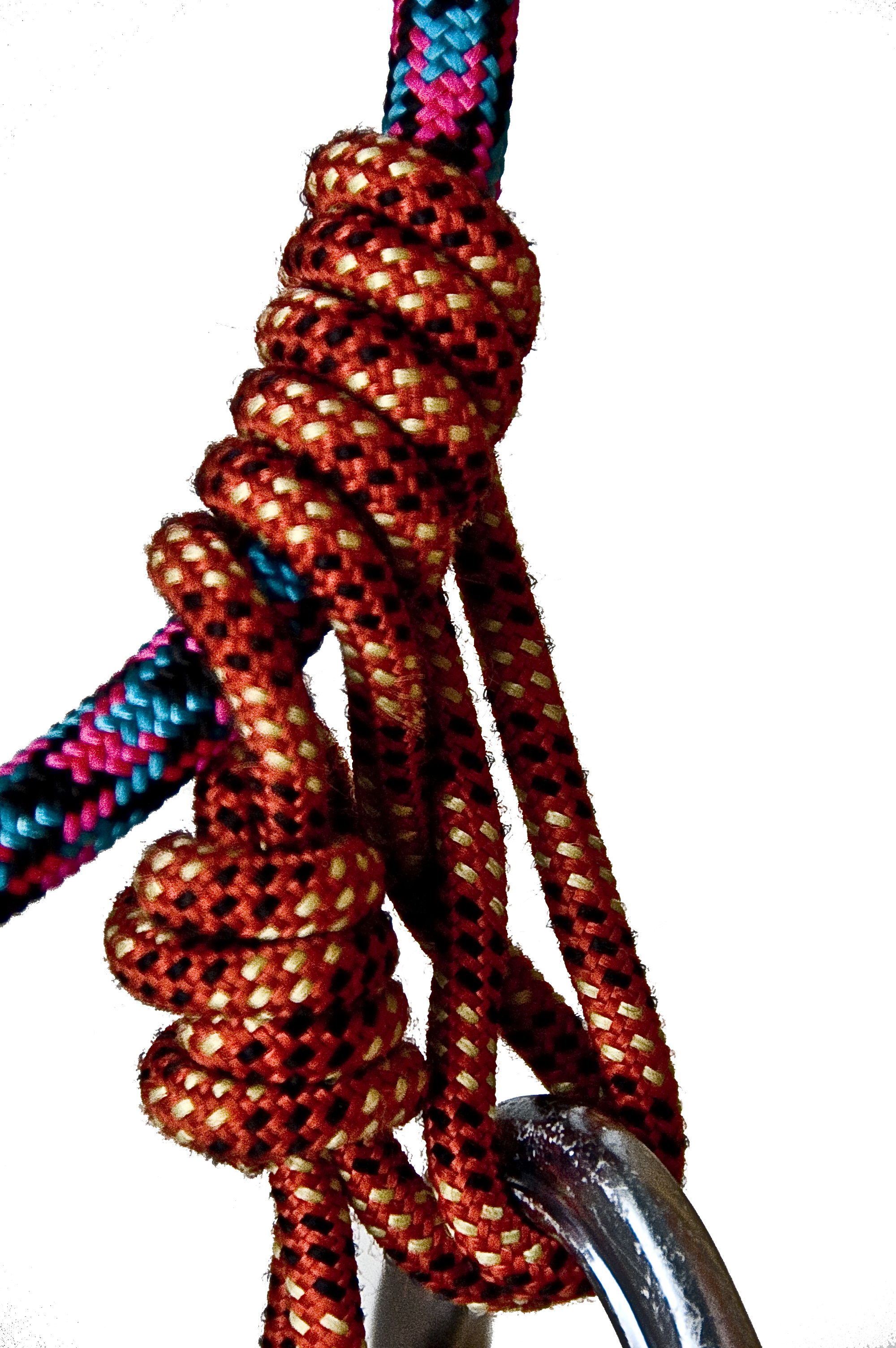 Machard knot 2 directions